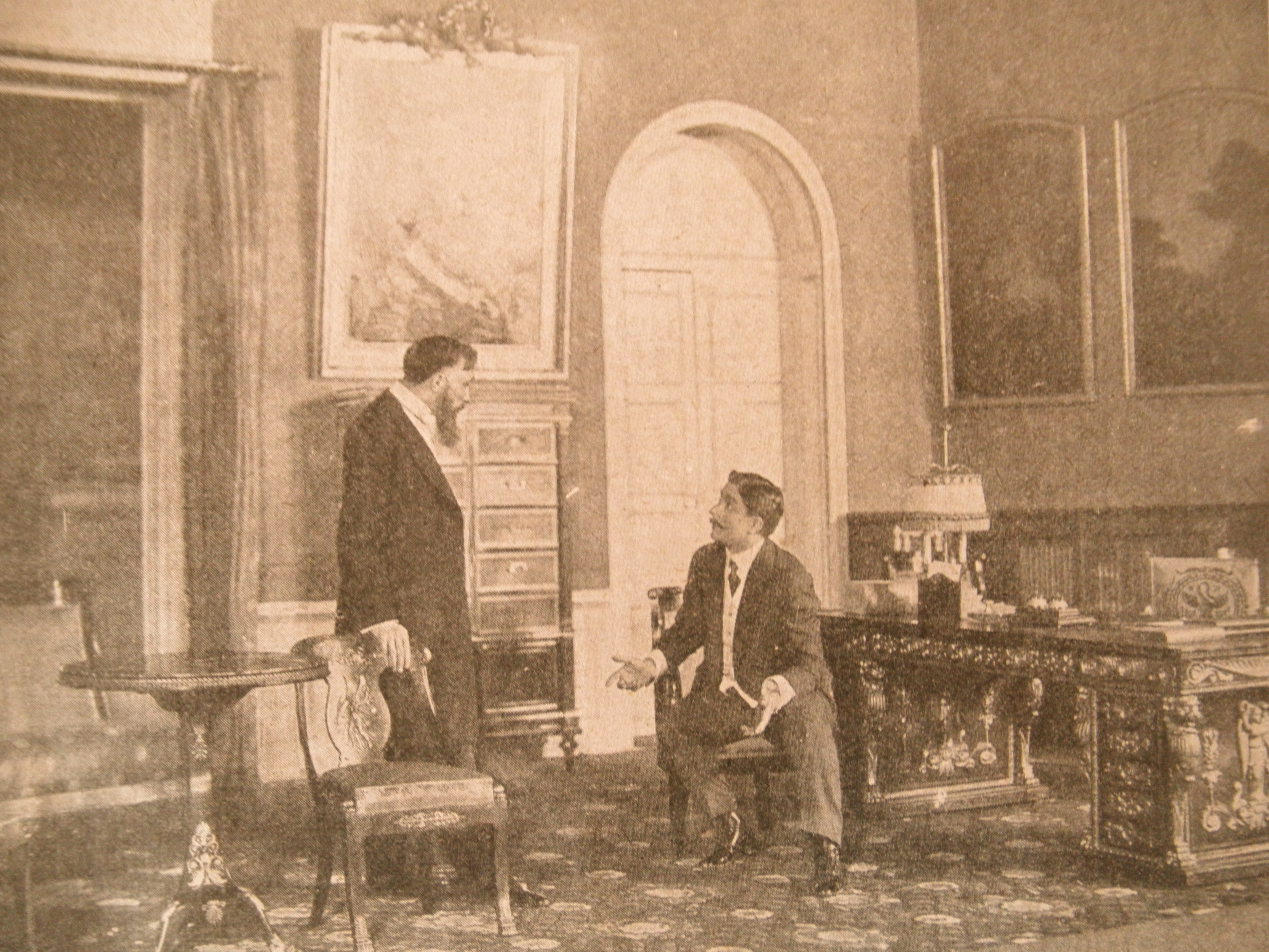 photo pièce theatre le divorce 1904